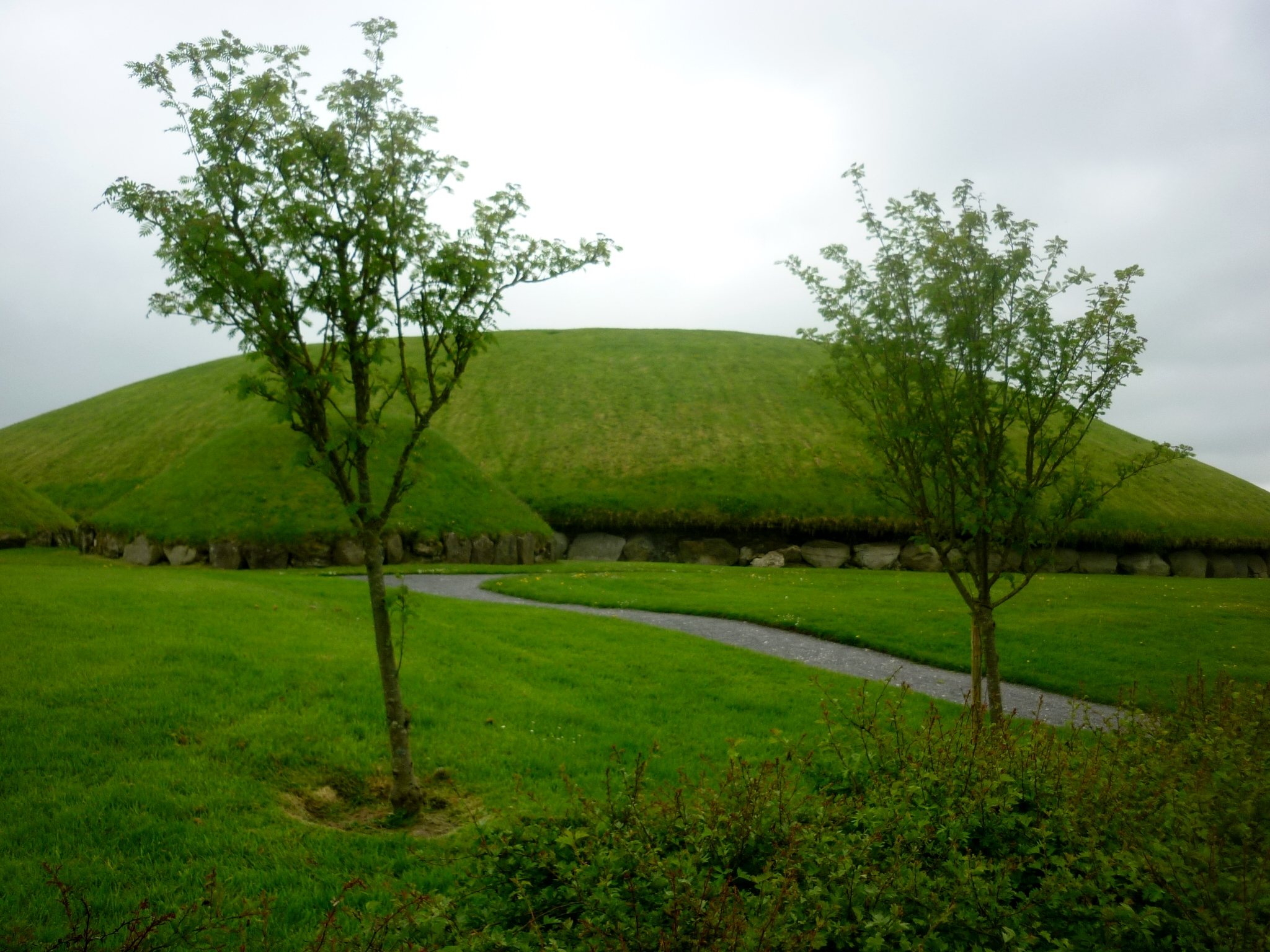 Grave mound (tumulus) from Newgrange, Ireland